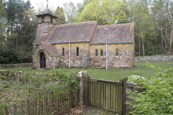 St Aldhelm's Chapel, Lytchett Heath, Dorset, seen from the south. In 2001 the chapel was given a set of new stained glass windows depicting the life of St Aldhelm.